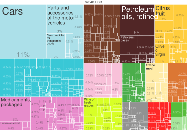 2014 Spain Products Export Treemap